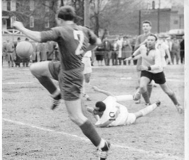 Ruben Mendoza watches one of his infamous bicycle kicks go into the opposing goal.